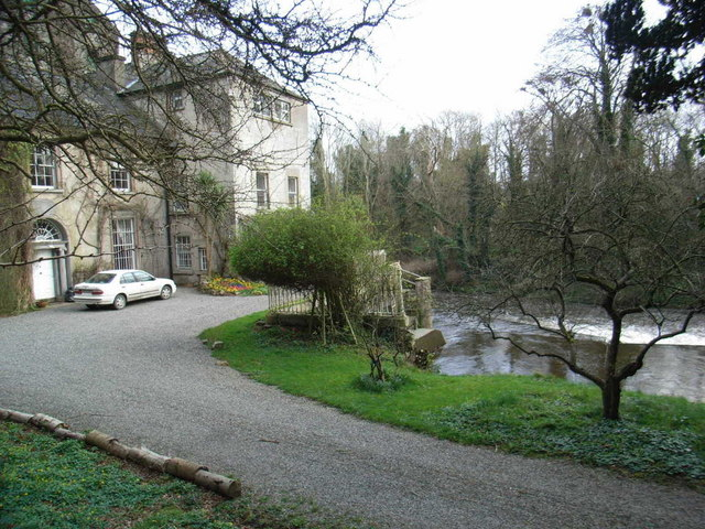 Anna Liffey Mills & Weir Georgian-era miller's house at Anna Liffey or Shackleton Mills, near Lucan, Co. Dublin. The former owners were from the same family as Ernest Shackleton, the Antarctic explorer. Flour was still being milled by water power here as recently as 1999.